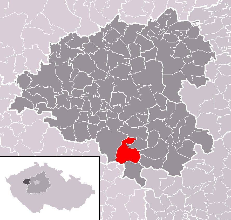 Location of Hřebečníky municipality within Rakovník District and (identical) administrative area of Rakovník as a Municipality with Extended Competence.